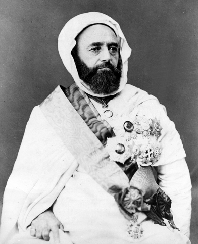 Photograph of the Algerian Abdul Kader al Jazairi from Damascus. He fought the French in Algeria, and was defeated and imprisioned in France from 1847 to 1852. He was pardoned by Napoleon the III, and made Damascus his new home. ' Here we stop at a door thronged by Algerines in their white burnouses. They salute us, and we ascend the stairs to a reception-room , Europeanised by Abd el Kadir. Abd el Kadir is a man of middle height and muscular frame. He dresses purely in white, and is enveloped in the usual snowy burnous. He was the fourth son of the Algerine Marabout, Abd el Kadir Mahy el Din, and was born in 1807. He is now pensioned by his conquerors, and spends his days at Damascus, surrounded by a number of his faithful Algerines." MRS. RICHARD BURTON, THE INNER LIFE OF SYRIA, HENRY S. KING & CO. LONDON 1875